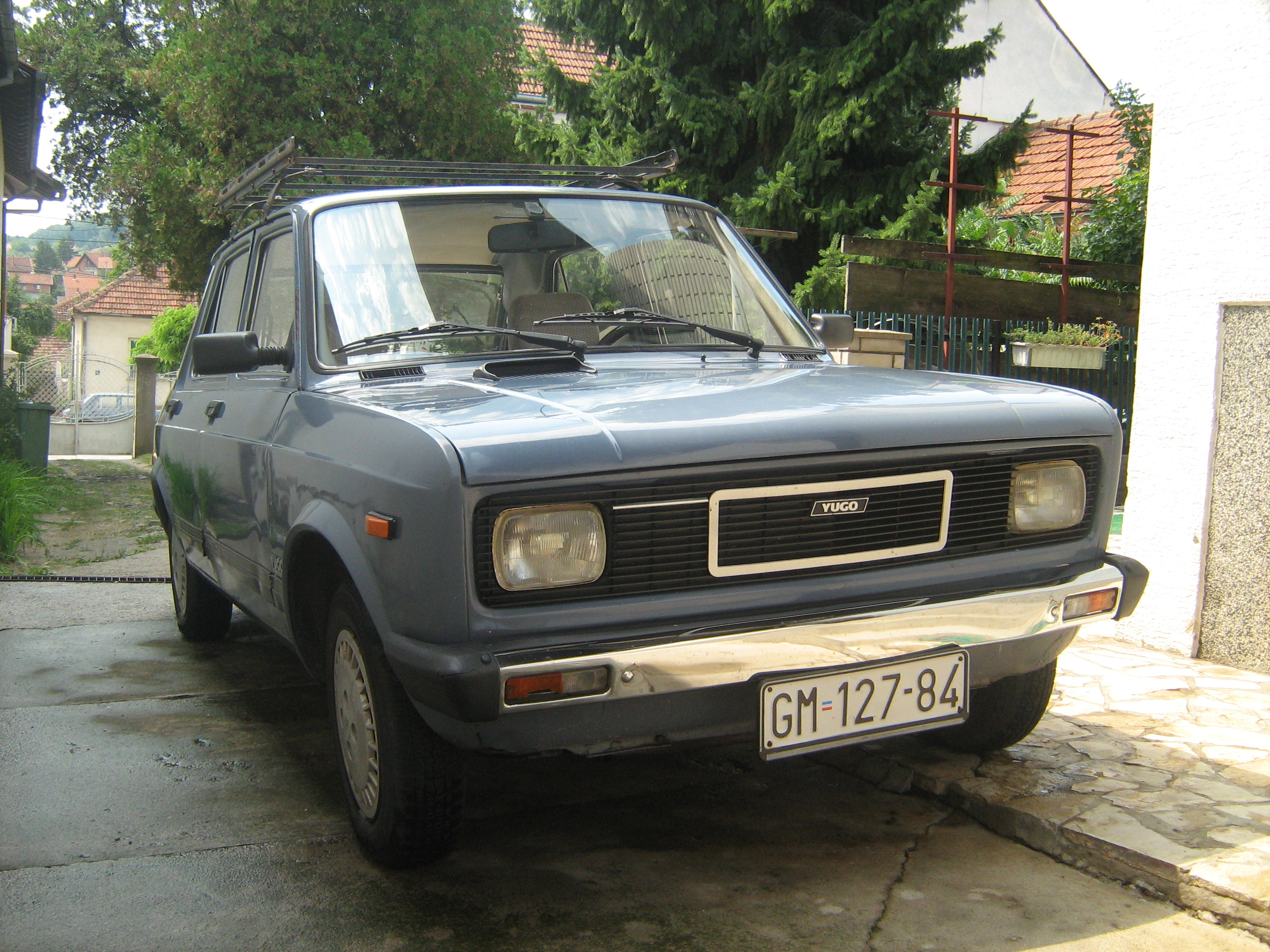 Yugo Skala 55, year of production 1991. Bought new by my father and remained in his ownership for 17 years. Odometer showed only 130,000km when it was sold in late 2008 for 1,200 euros. I grew up with this car, and I would like to own it myself someday.